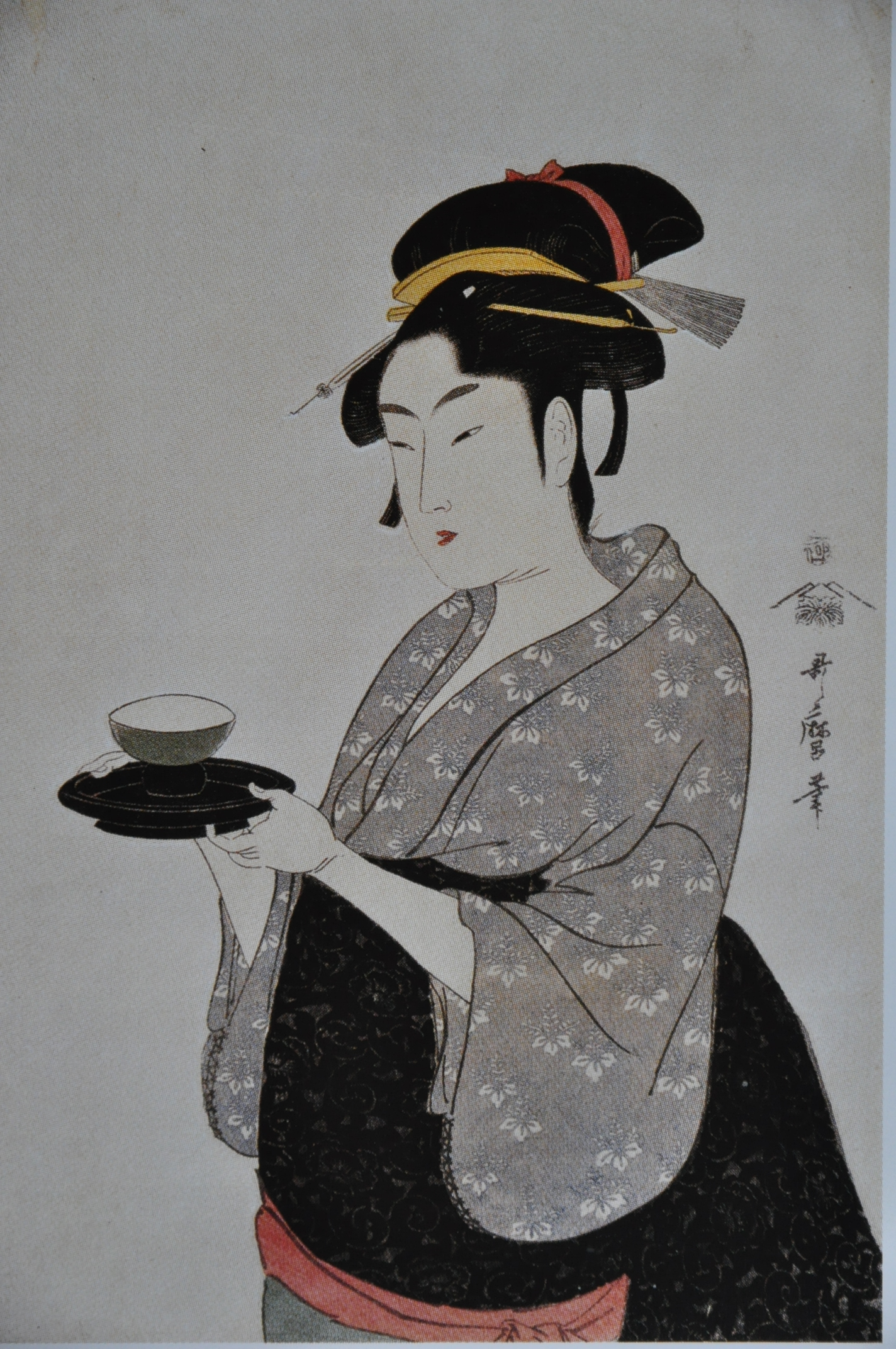 Portrait of Naniwaya Okita bu Utamaro (1793). She was a servant in a tea house close to Asakusa, and is often shown in Utamaro's woodcut prints. Nishiki-e, ôban size, mica ground.